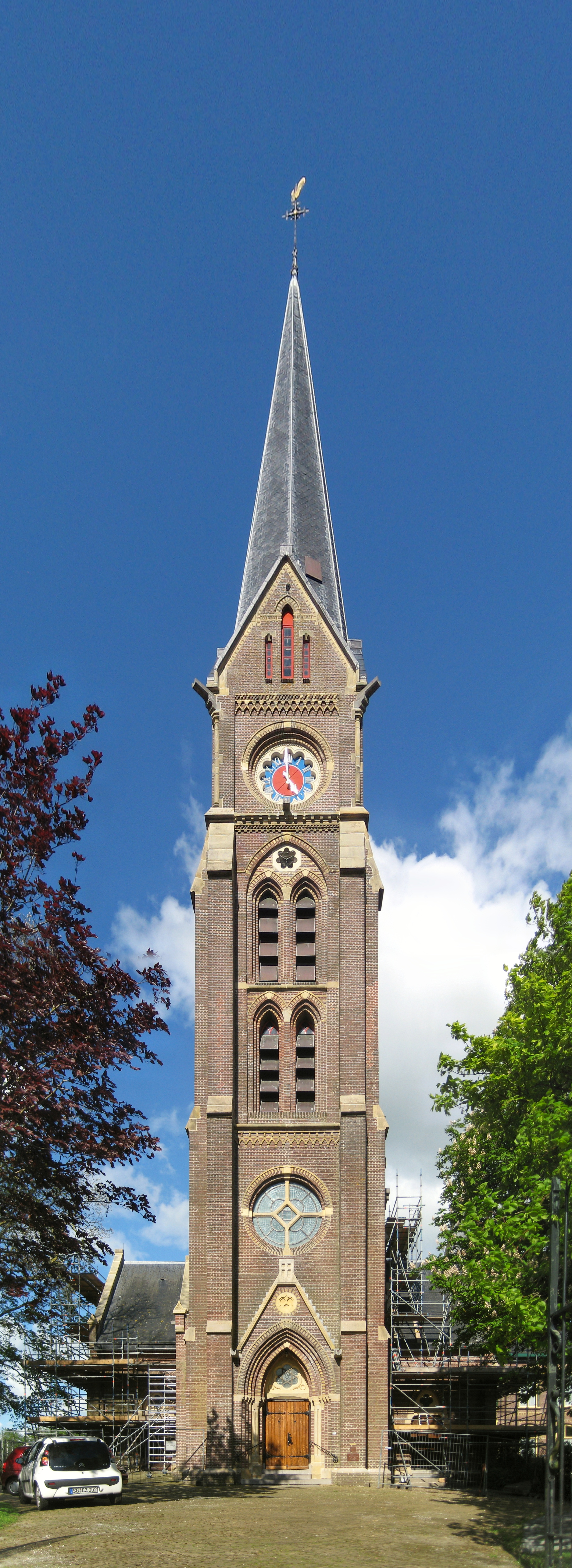 The Sint-Vituskerk (b. 1869-1871) in Blauwhuis, a village in in the Dutch province of Fryslân.